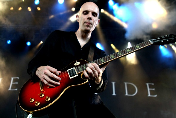 Billy Howerdel playing the guitar for his band Ashes Divide.